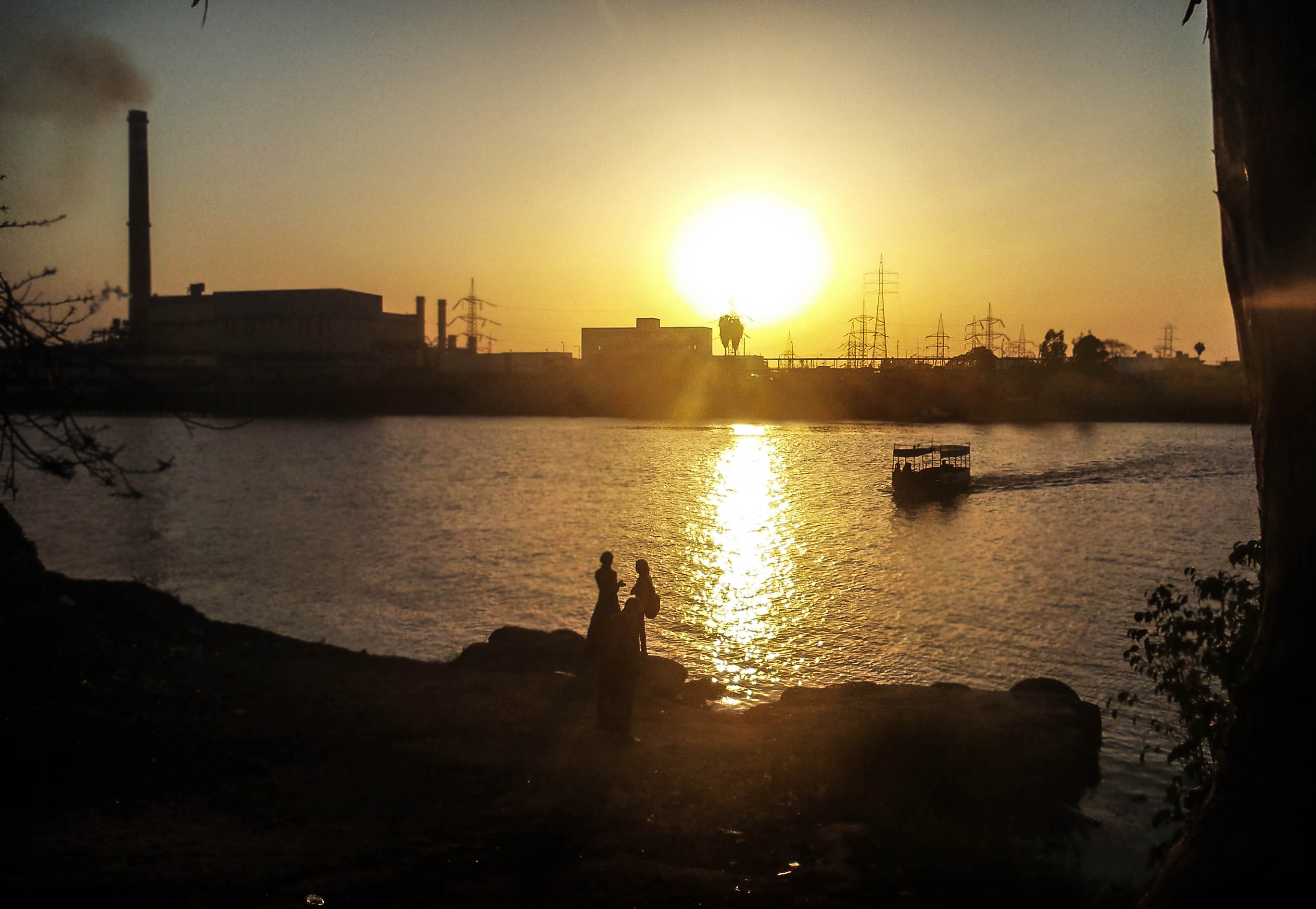 El Mansoura (Arabic: المنصورة, al-manṣūrah) is a city in Egypt, with a population of 420,000. It is the capital of the Dakahlia Governorate. Mansoura lies on the east bank of the Damietta branch of the Nile, in the Delta region. Mansoura is about 120 km northeast of Cairo. Across from the city, on the opposite bank of the Nile, is the town of Talkha. Mansoura and Talkha together form a metropolitan city. More.